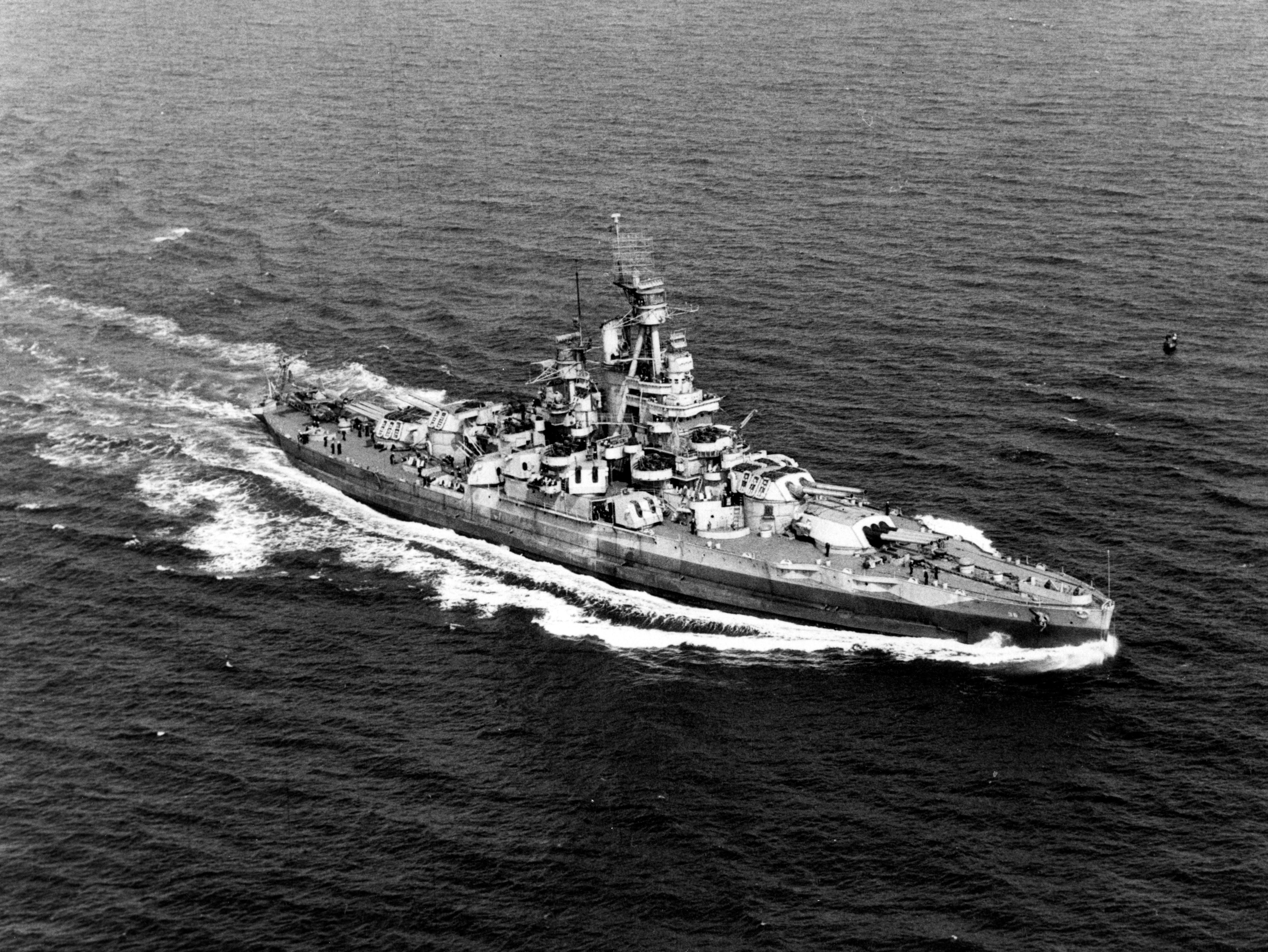 USS Nevada (BB-36) underway off of the U.S. Atlantic coast on 17 September 1944. Photographed from a blimp of squadron ZP-12. Official U.S. Navy Photograph, now in the collections of the National Archives.